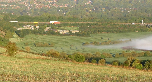 Morestead Sewage Farm. This waste water treatment plant, which serves the whole of Winchester, is situated on both sides of the M3. This photo shows the western side in the early morning; it is in shade the rest of the day. This is the largest "return to ground" plant in England. The green ditch pattern allows treated water to seep back into the chalk aquifer, whence in due course Twyford pumping station returns it to the mains!